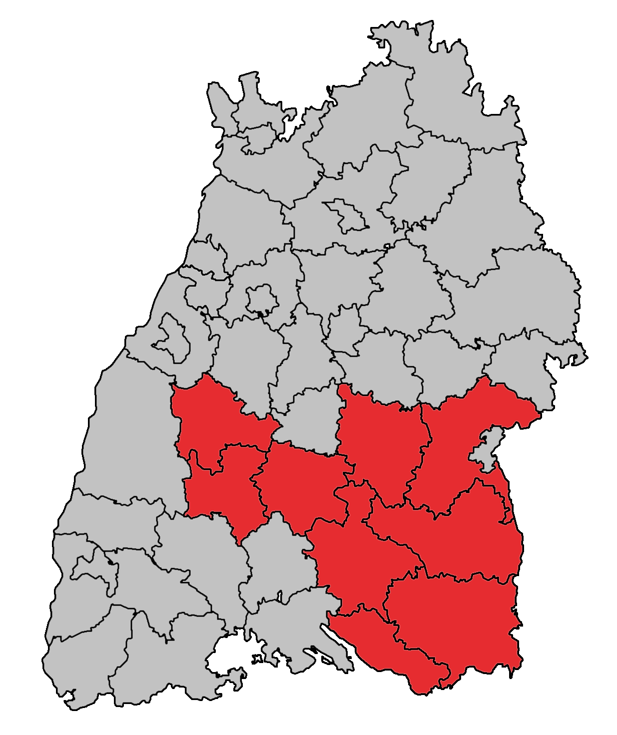 Districts of Baden-Württemberg that are shareholders of OEW